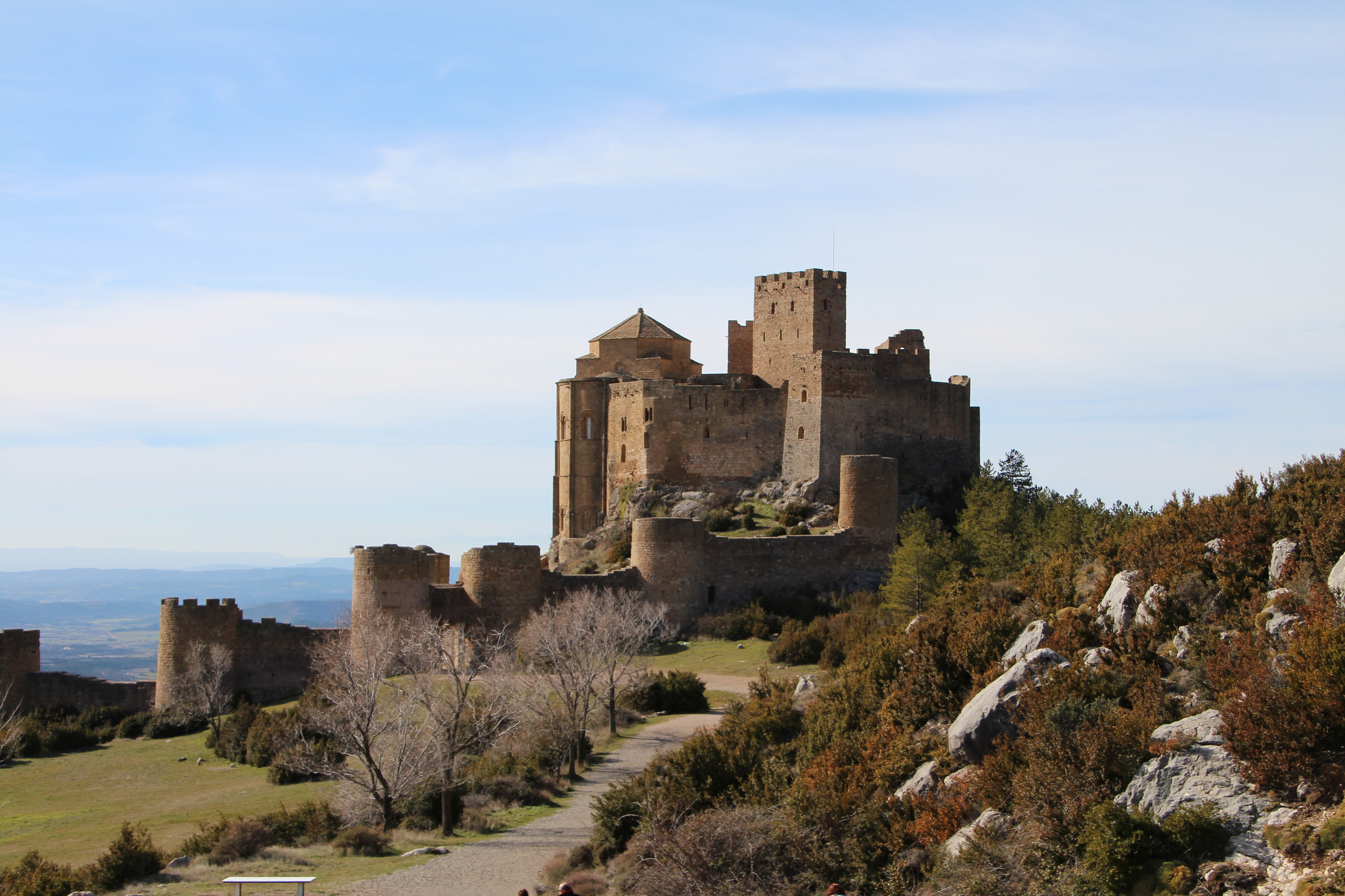 General View of Loarre Castle